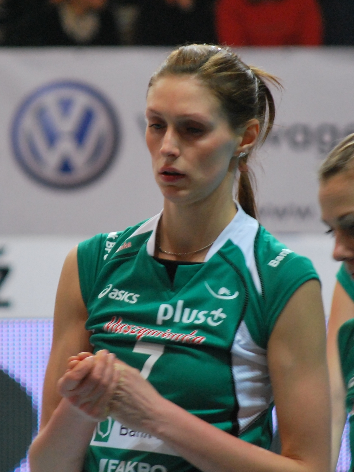 Joanna Kaczor, polish volleyball player